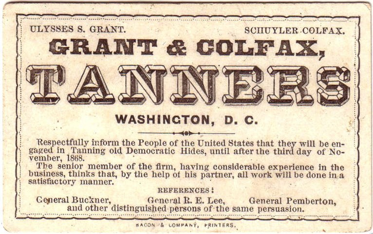 Store Web page states: "Campaign card with Ulysses S. Grant and Schuyler Colfax - GRANT & COLFAX, TANNERS - Washington, D. C. Below this is: 'Respectfully inform the People of the United States that they will be engaged in Tanning old Democratic Hides, until after the third day of November, 1868. The senior member of the firm, having considerable experience in the business, thinks that, by the help in his partner, all work will be done in a satisfactory manner. References: General Buckner, General R. E. Lee, General Pemberton, and other distinguished persons of the same persuation.' This care measures 2-1/8" by 3-3/8""